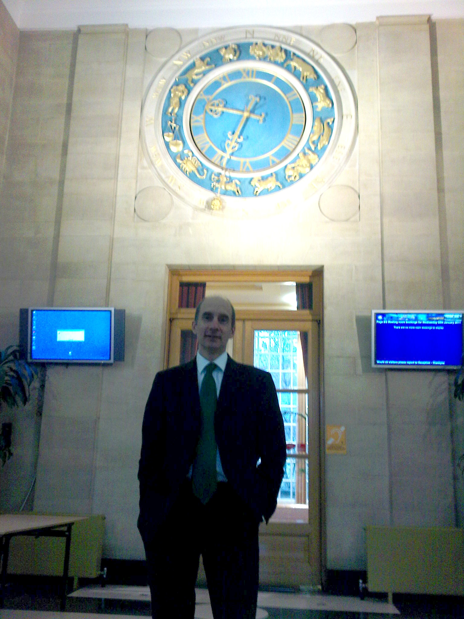 Director of the Institute for Government Andrew Adonis visits Bristol City Council as part of his tour of England's 12 largest provincial cities. Bristol is one of 12 cities that will hold a referendum to determine whether it wants a directly elected mayor, as London has had for the past 10 years. For more information